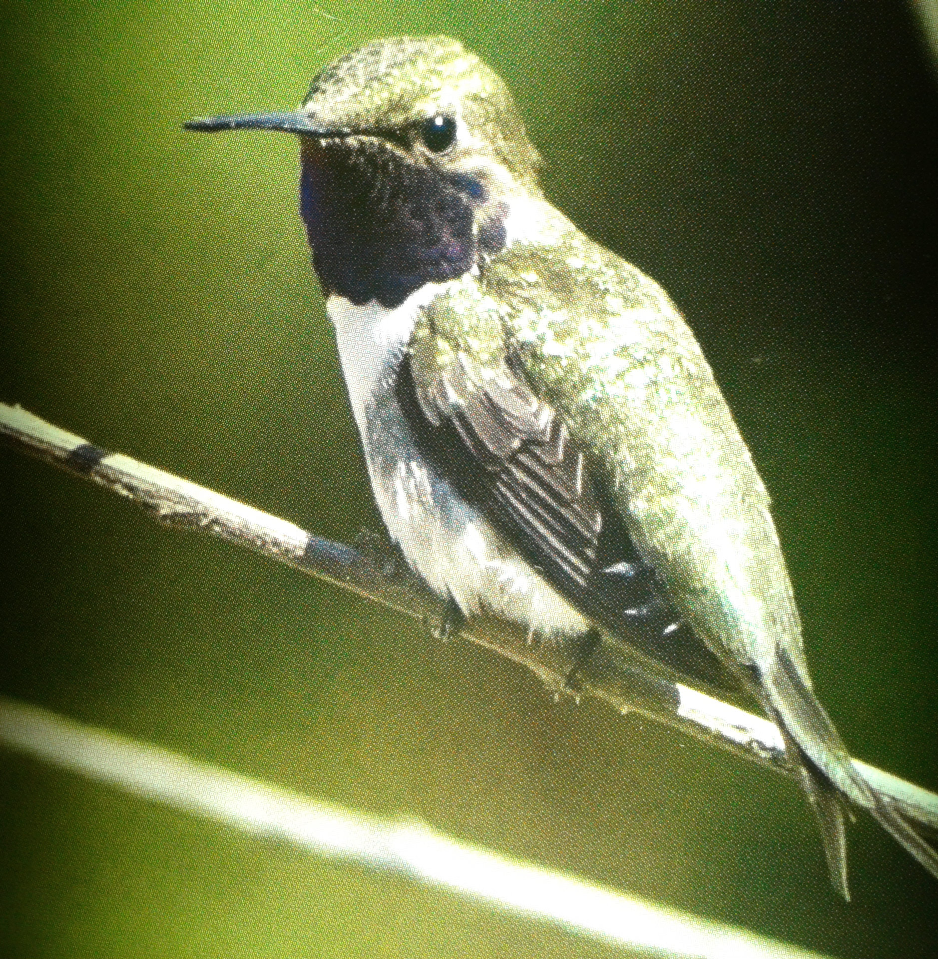 Picaflor de Arica macho